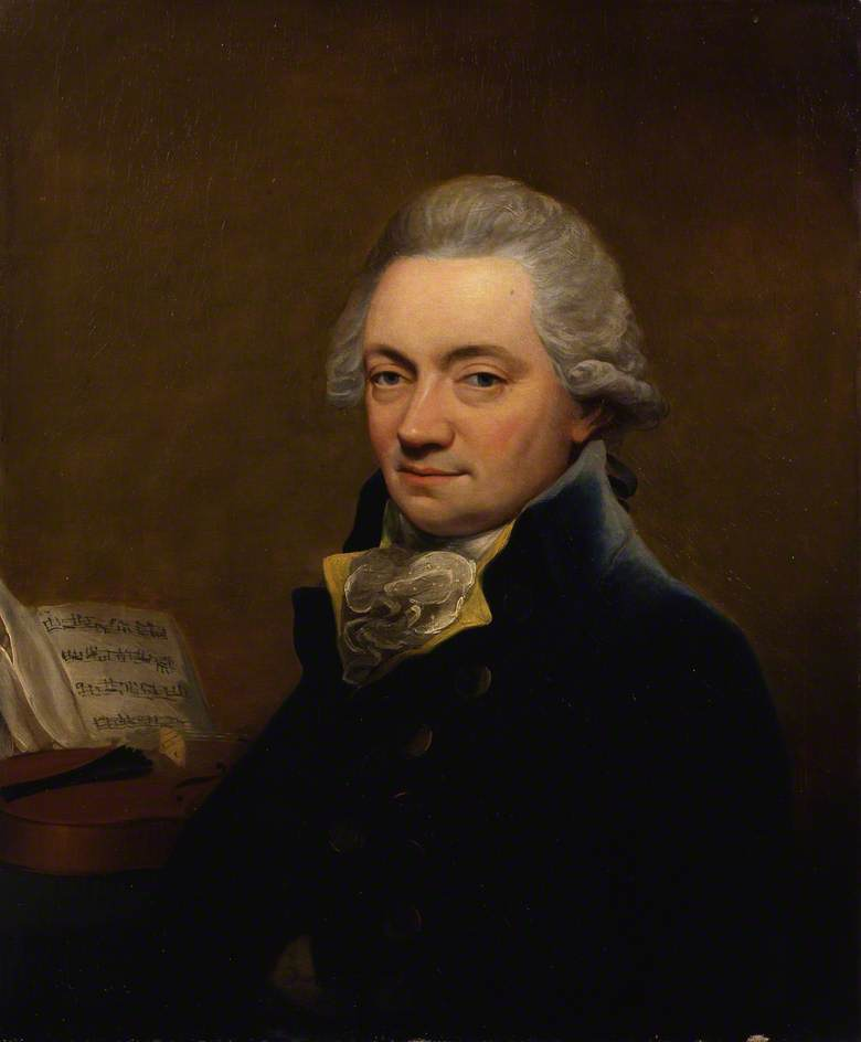 Portrait of the German violinist Johann Peter Salomon